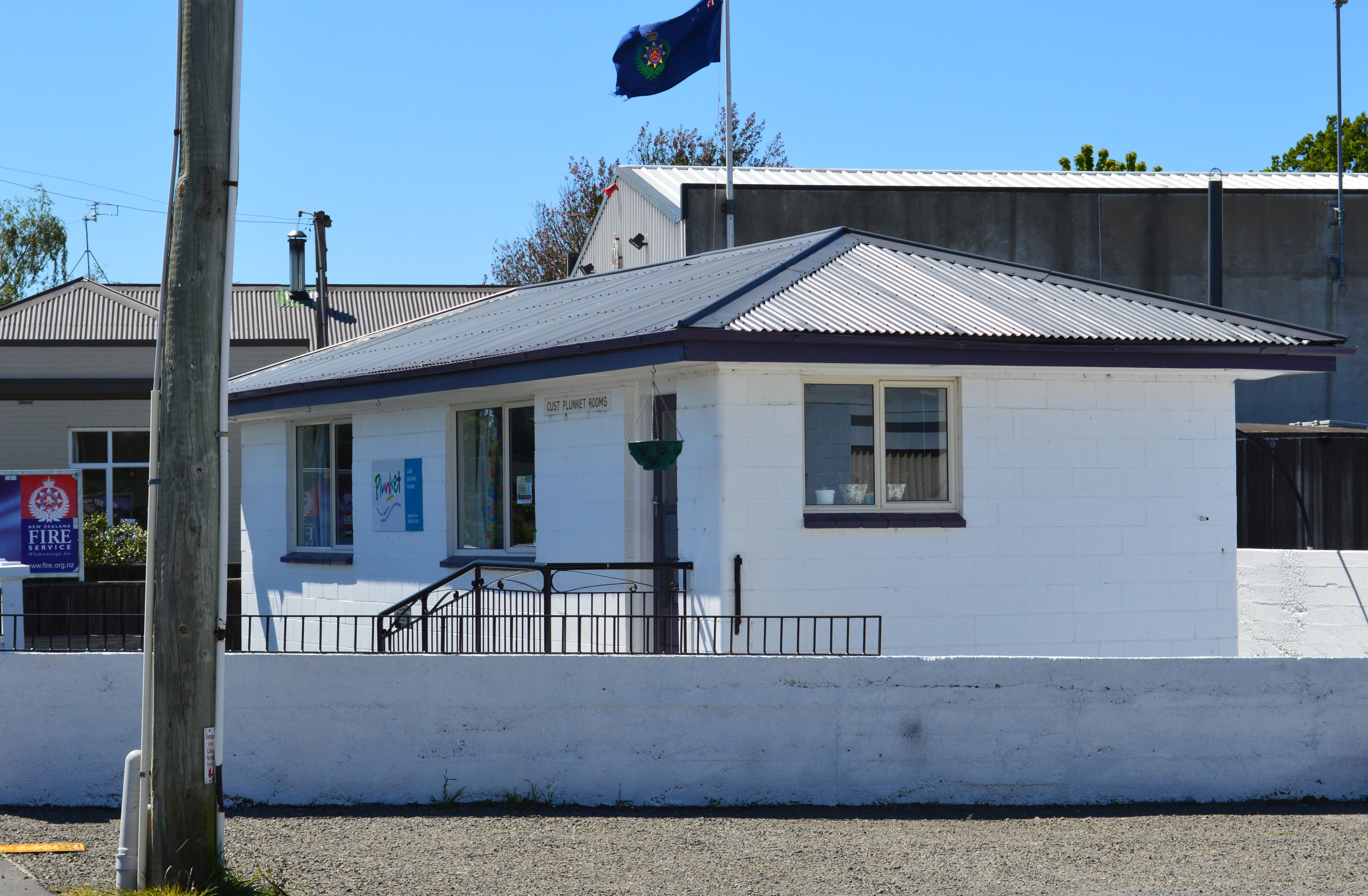 Plunket Society rooms in Cust, New Zealand